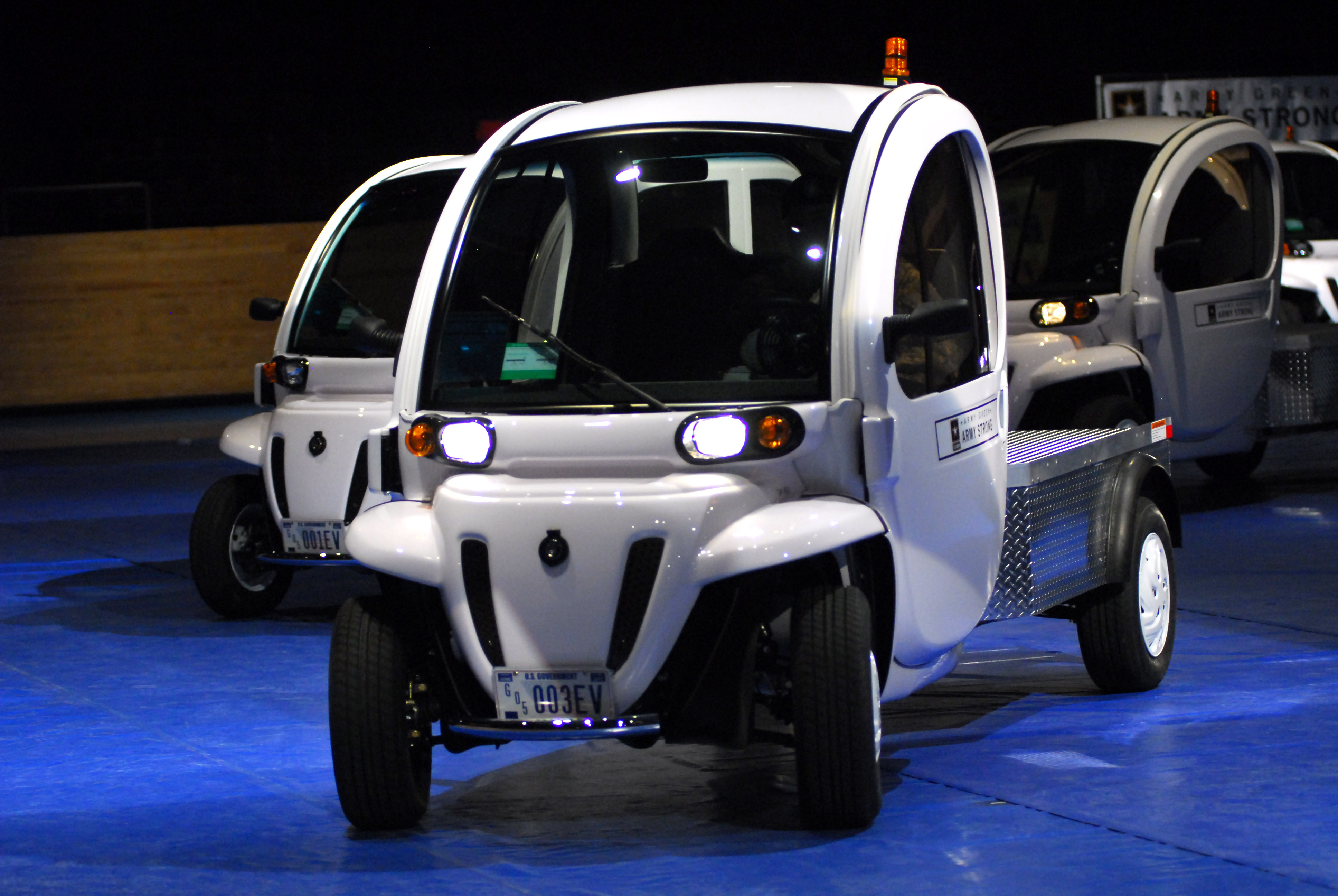 The first six Global Electric Motorcars "neighborhood electric vehicles" were delivered to the Army Jan. 12, 2009, during a ceremony at Fort Myer, Va. The ceremonial delivery of the NEVs, which are entirely electric powered, represents the beginning of a leasing action by the Army to obtain more than 4,000 of the vehicles. The use of NEVs by the Army is part of its comprehensive and far-reaching energy security initiative to ease its dependence on fossil fuels. As part of that initiative, the service will be leveraging electric vehicles and other technologies that exist today, as well as exploring emerging technologies.